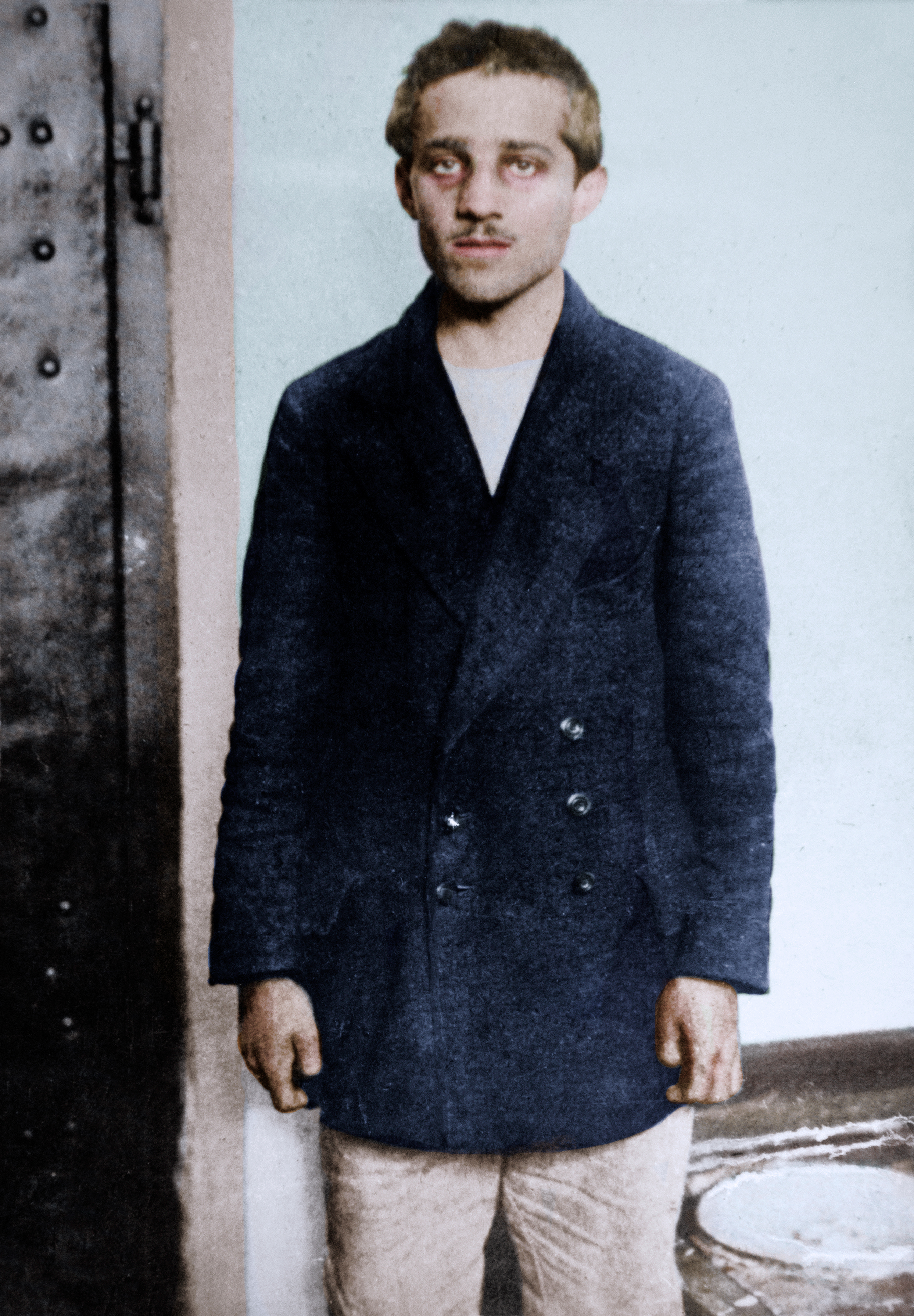 Gavrilo Princip in his prison cell at the Terezín fortress, 1914. The same year, Princip had killed Archduke Franz Ferdinand of Austria and his wife Sophie of Hohenberg. On 28 June 1914, Princip and five more assassins of the Black Hand society planned to kill Franz Ferdinand for the creation of a Yugoslavian state. The result, however, led to the First World War with Austria-Hungary’s declaration of war on Serbia. Princip was too young to receive the death penalty, so received the maximum sentence of twenty years in prison. Because of being held in harsh conditions, he contracted tuberculosis and died on 28 April 1918 at Terezín short before the war had ended.